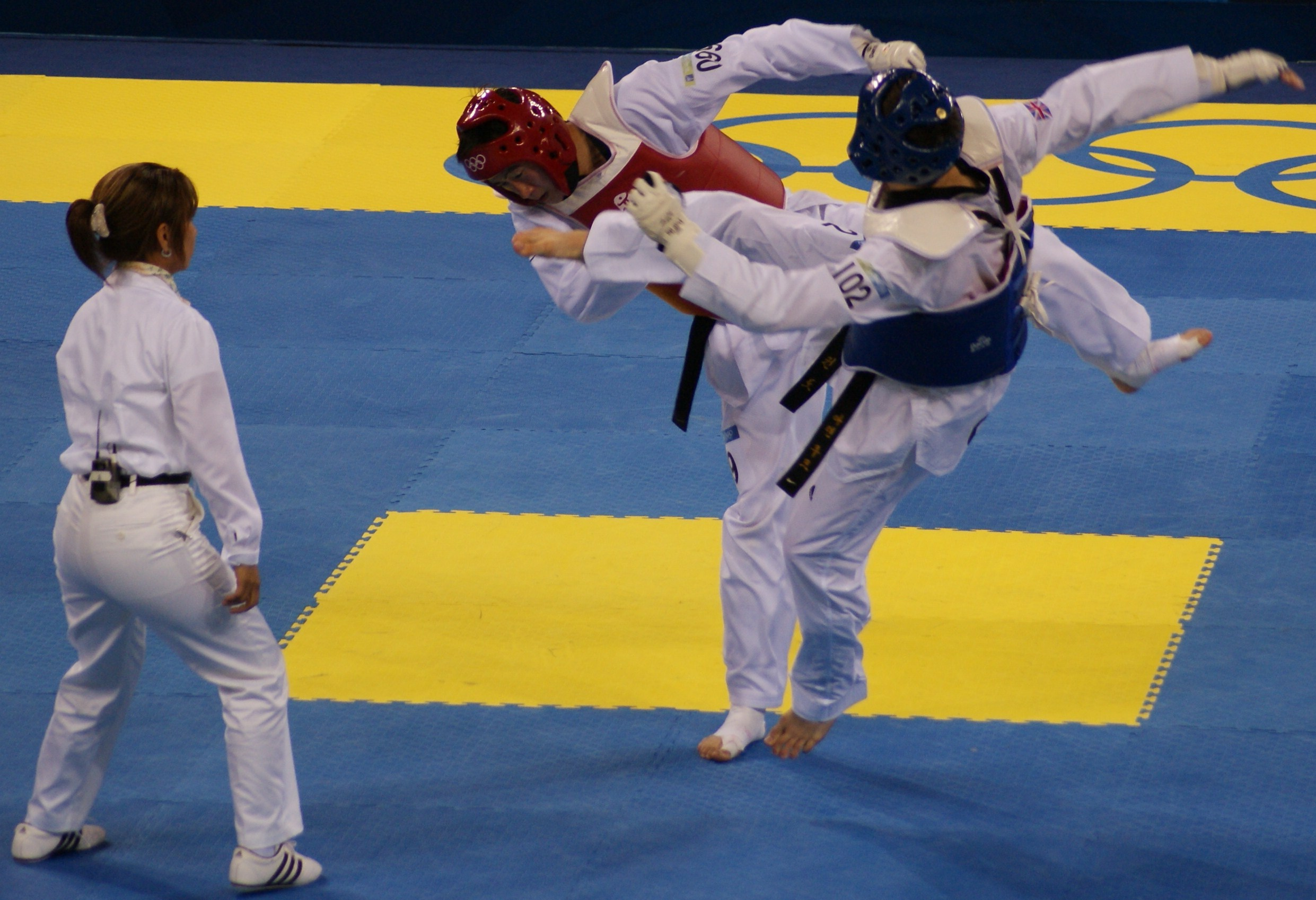 Aaron Cook Fighting in A Bronze Medal Match Against Zhu Guo at the 2008 Olympic Games, in the -80KG Event.